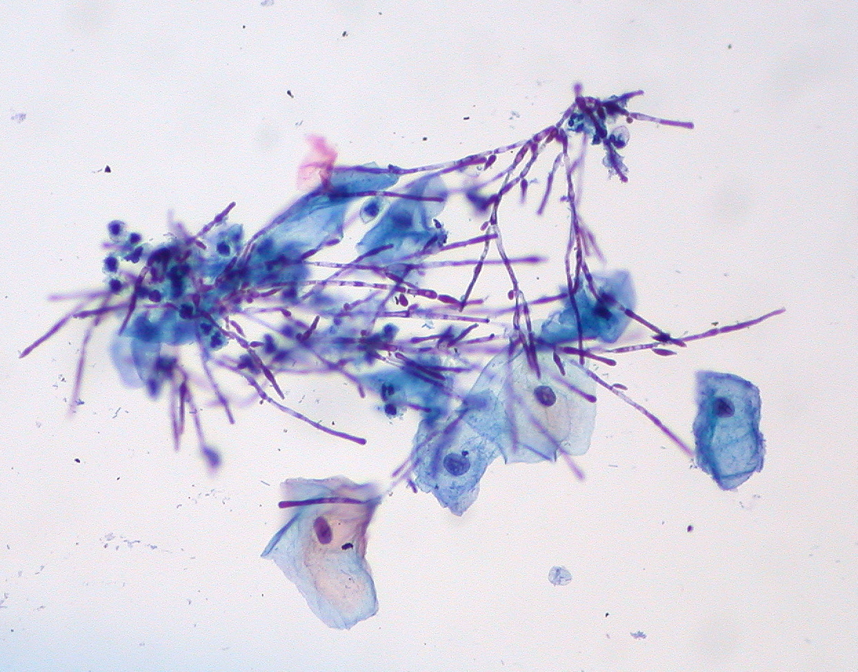 Candida, Liquid-based Pap Pathological and histological images courtesy of Ed Uthman at flickr.